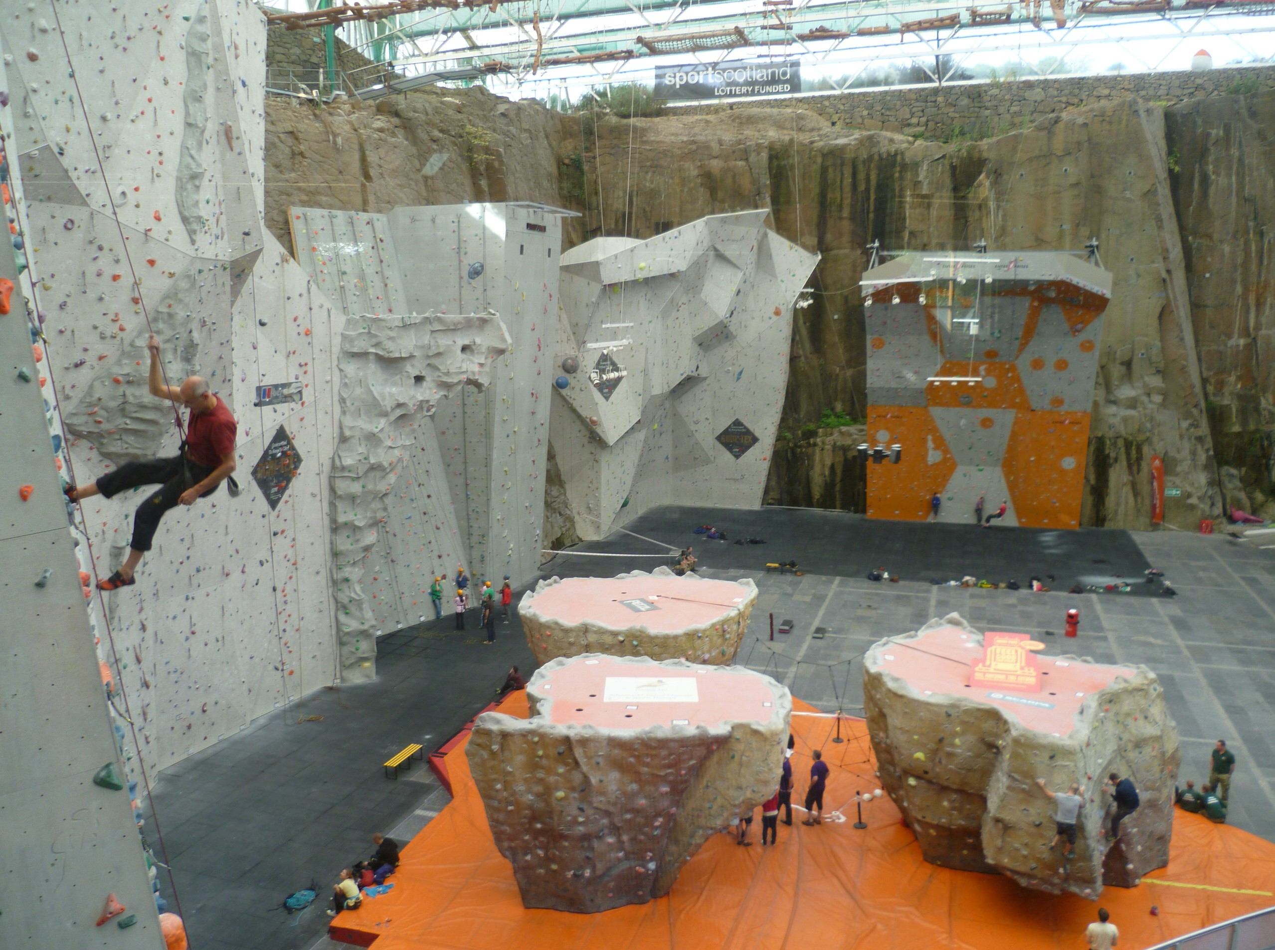 Ratho Climbing Centre outside Edinburgh